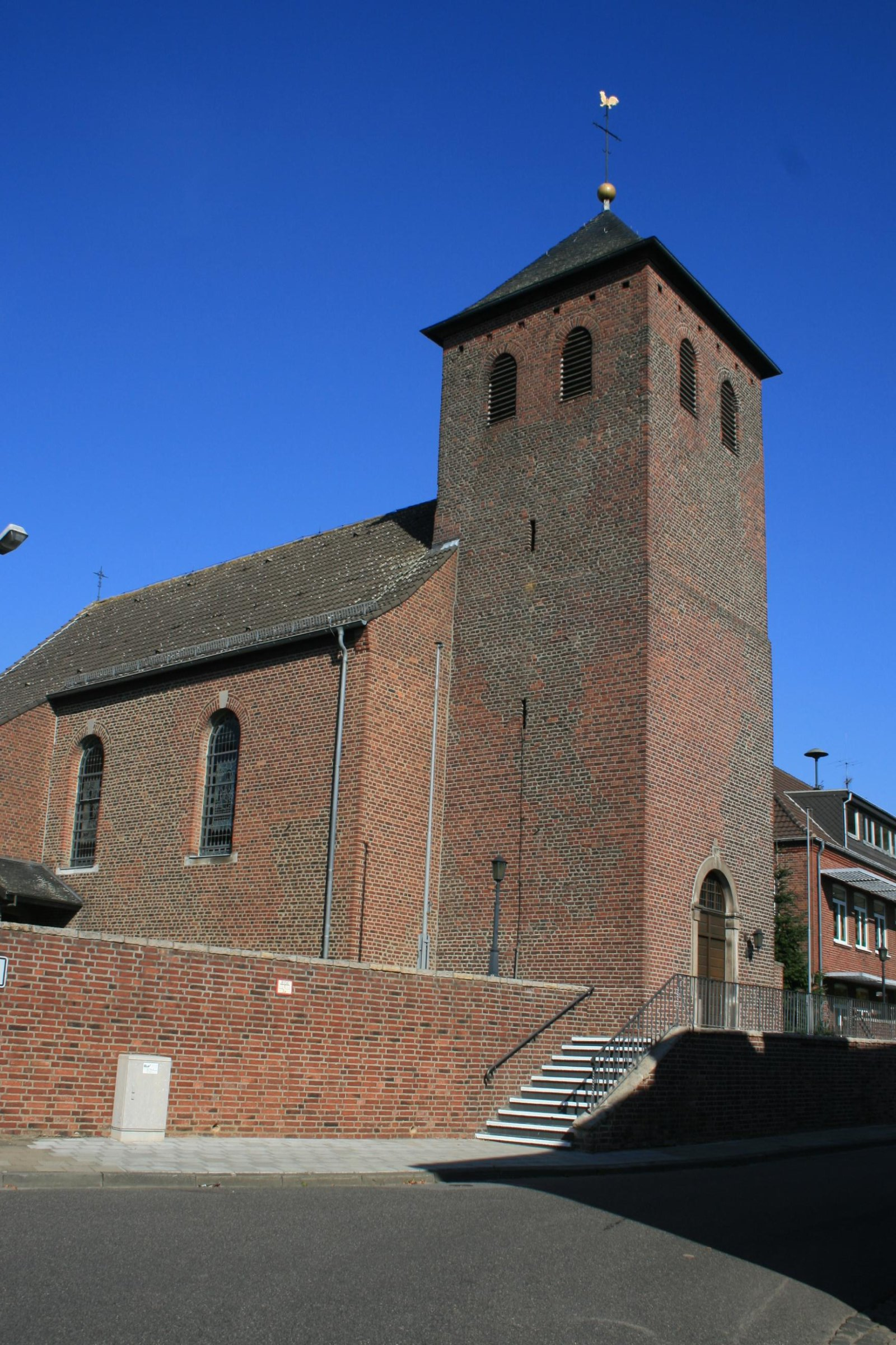 Cultural heritage monument No. 28 in Linnich